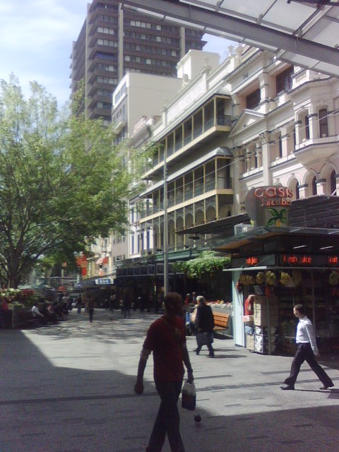 Oasis Juice Bar, Queen Street Mall Brisbane